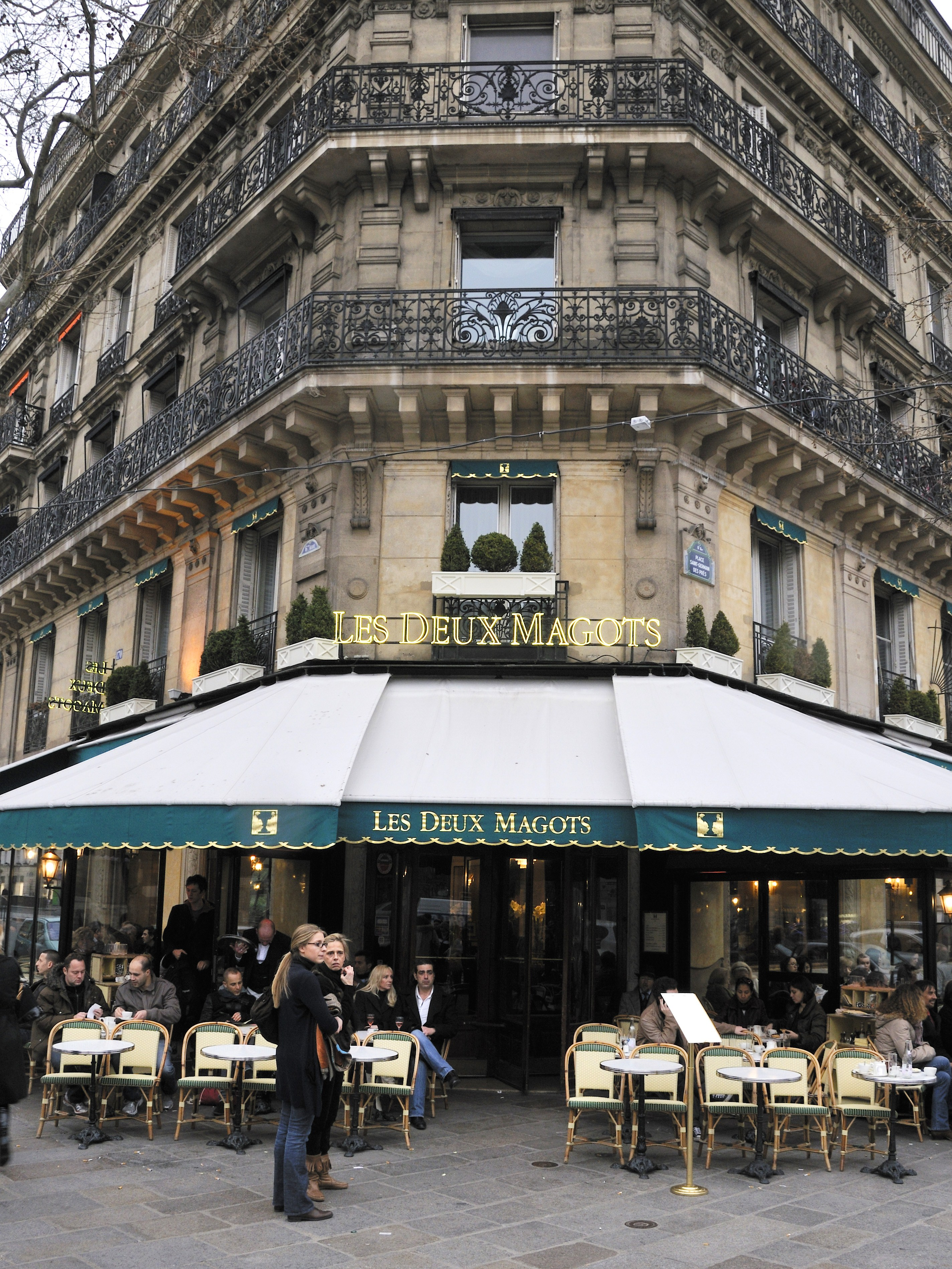 Les Deux Magots in Paris (France), known from "The Mad Adventures of Rabbi Jacob" with Louis de Funes.